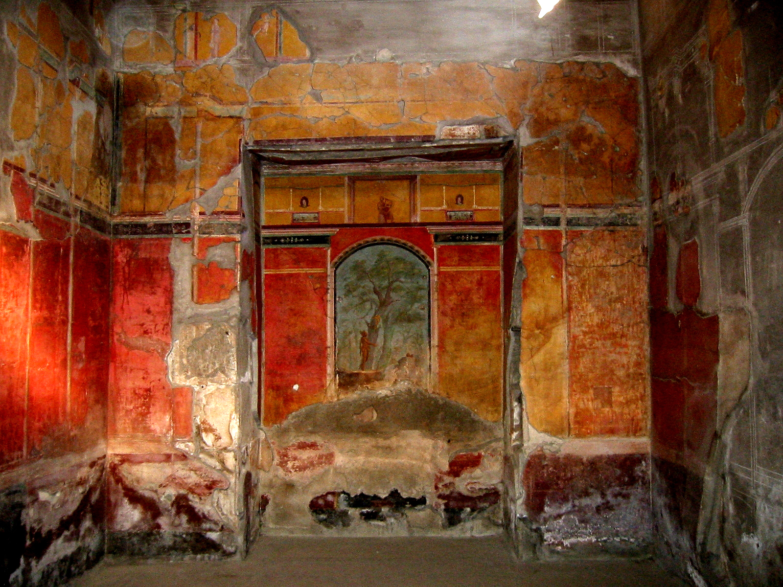 The photo was taken at the excavated Villa in Oplontis, the modern Torre Annunziata near Naples in Campania, Italy. It shows one wall of the Caldarium, room 8. The motif in the middle represents Herakles in the garden of the Hesperides.